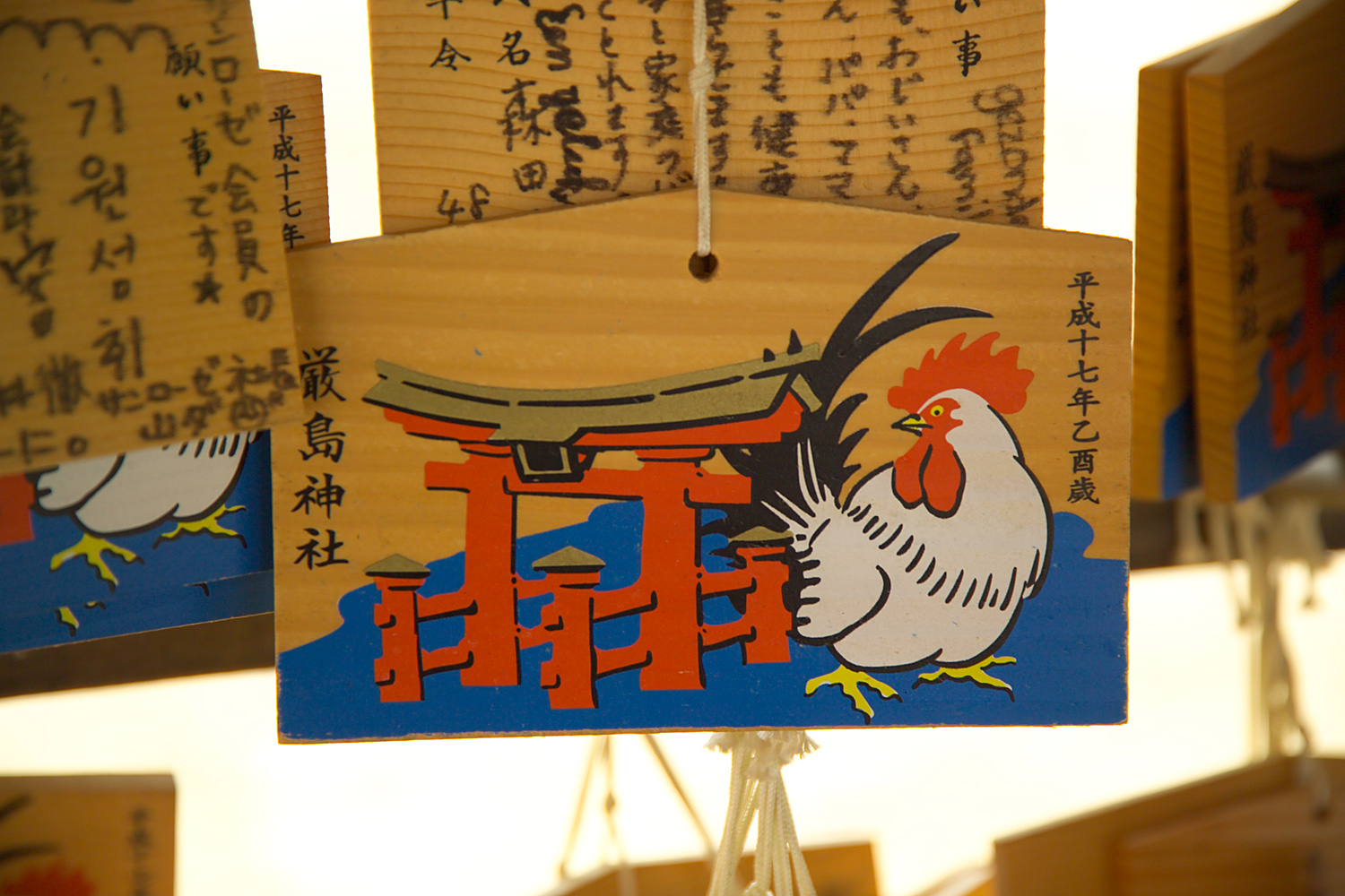 Ema at Itsukushima Shrine, Miyajima, Hiroshima Prefecture, Japan. Year of the Rooster. I took the photo.